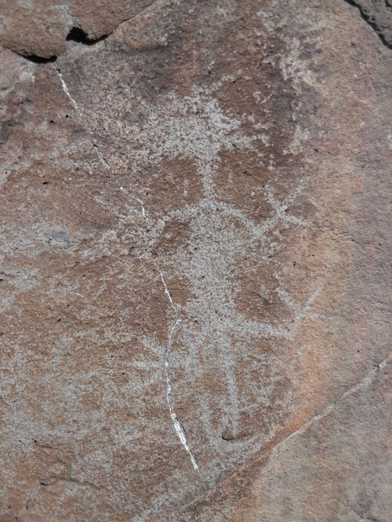 Petroglyph figure near Abert Lake in Lake County, Oregon.